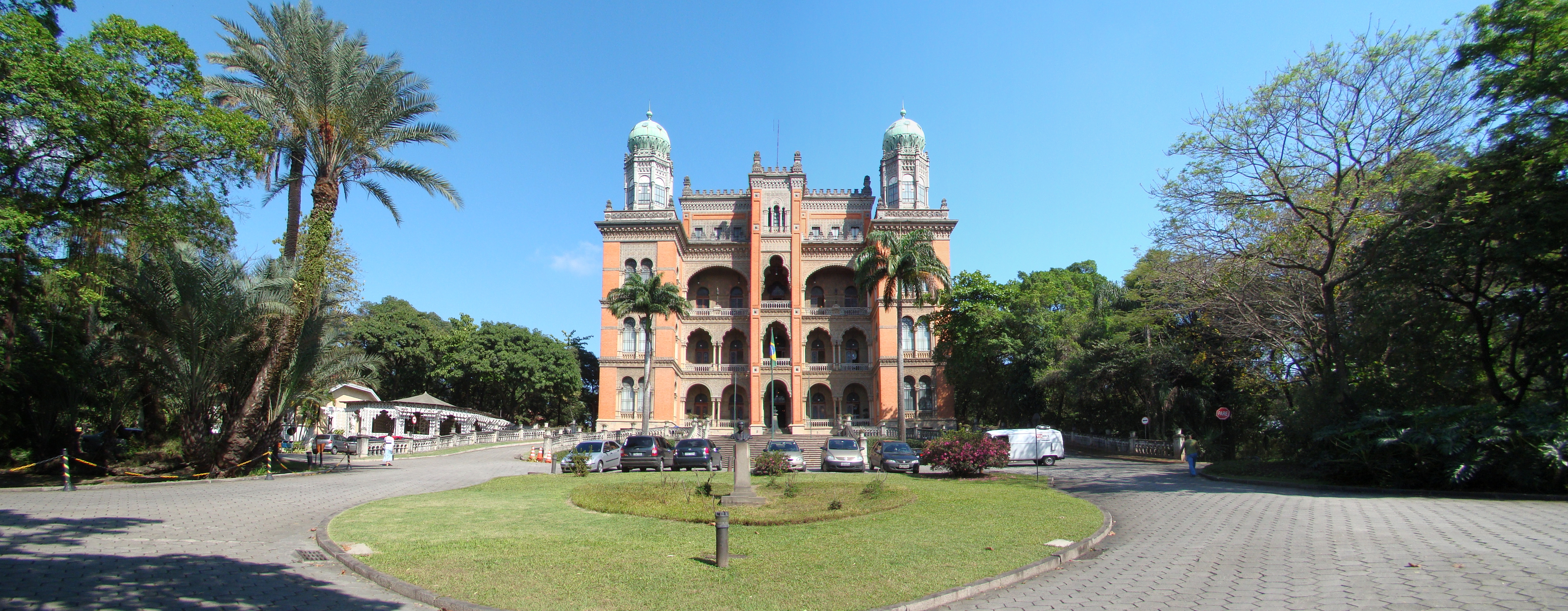 Castles of Fundação Oswaldo Cruz (FIOCRUZ), Rio de Janeiro, Brazil